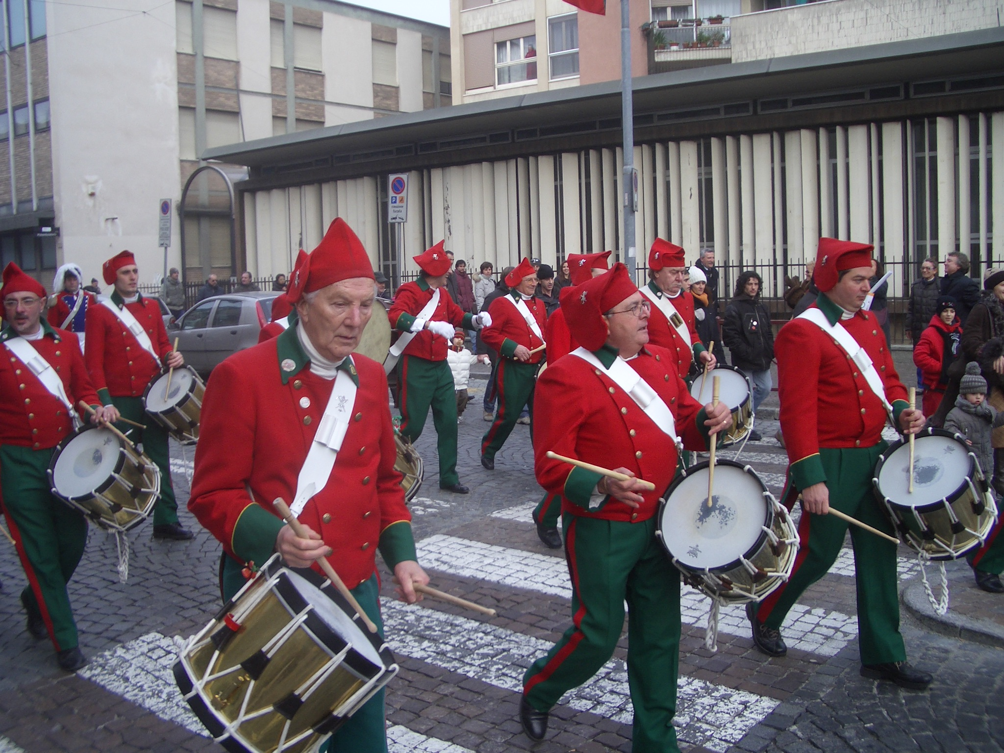 Carnival of Ivrea, Banda dei Pifferi e Tamburi (The Pipers and Drummers Band)